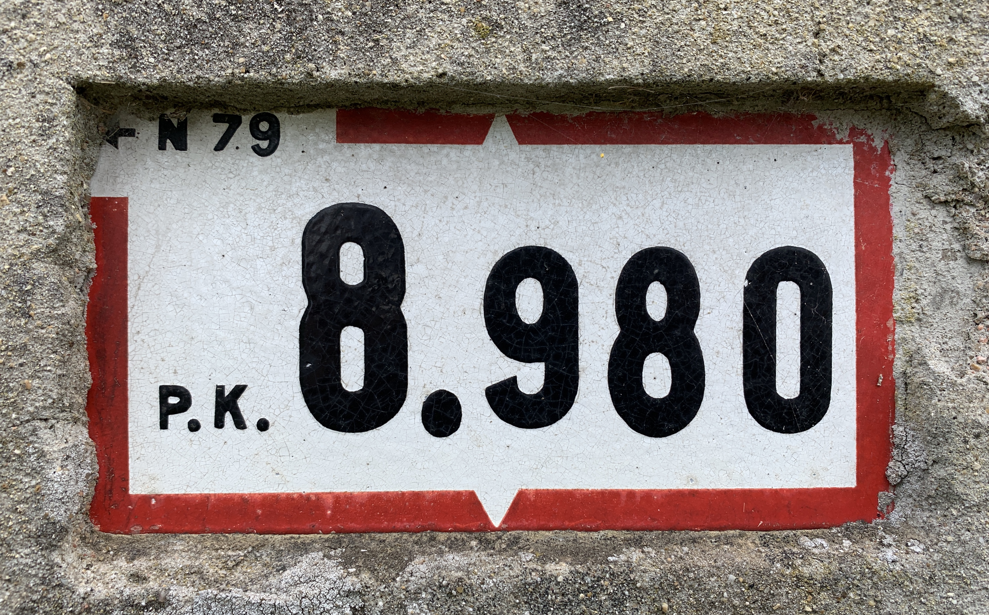 Road kilometer sign of National Road 79 along Mâcon Road in Saint-Cyr-sur-Menthon, France.